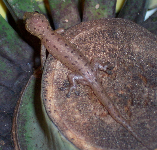 House gecko Gehyra mutilata, from Darmaga, Bogor, West Java, Indonesia